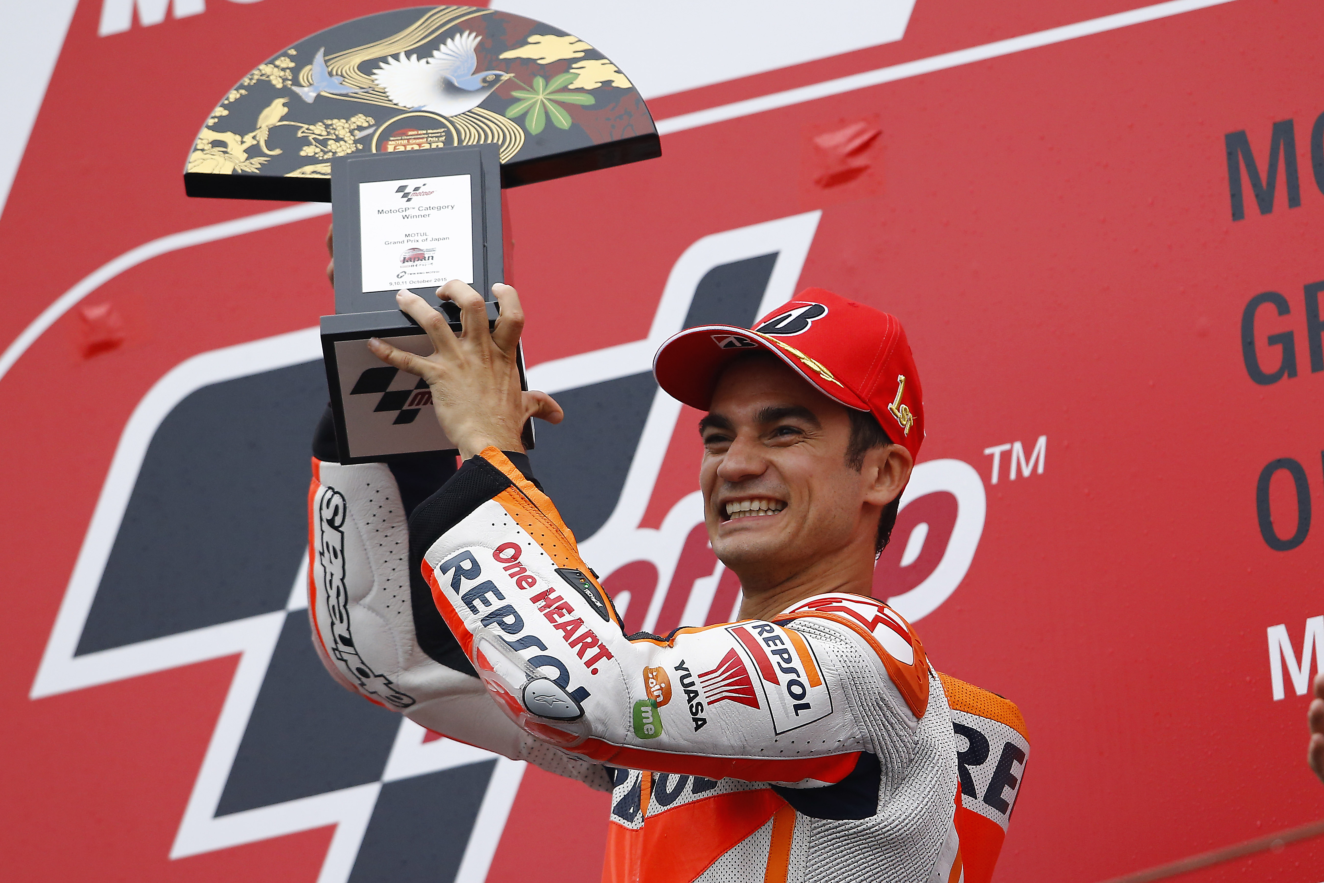 Dani Pedrosa, lifting his trophy and celebrating on the podium after winning the 2015 Japanese Grand Prix.